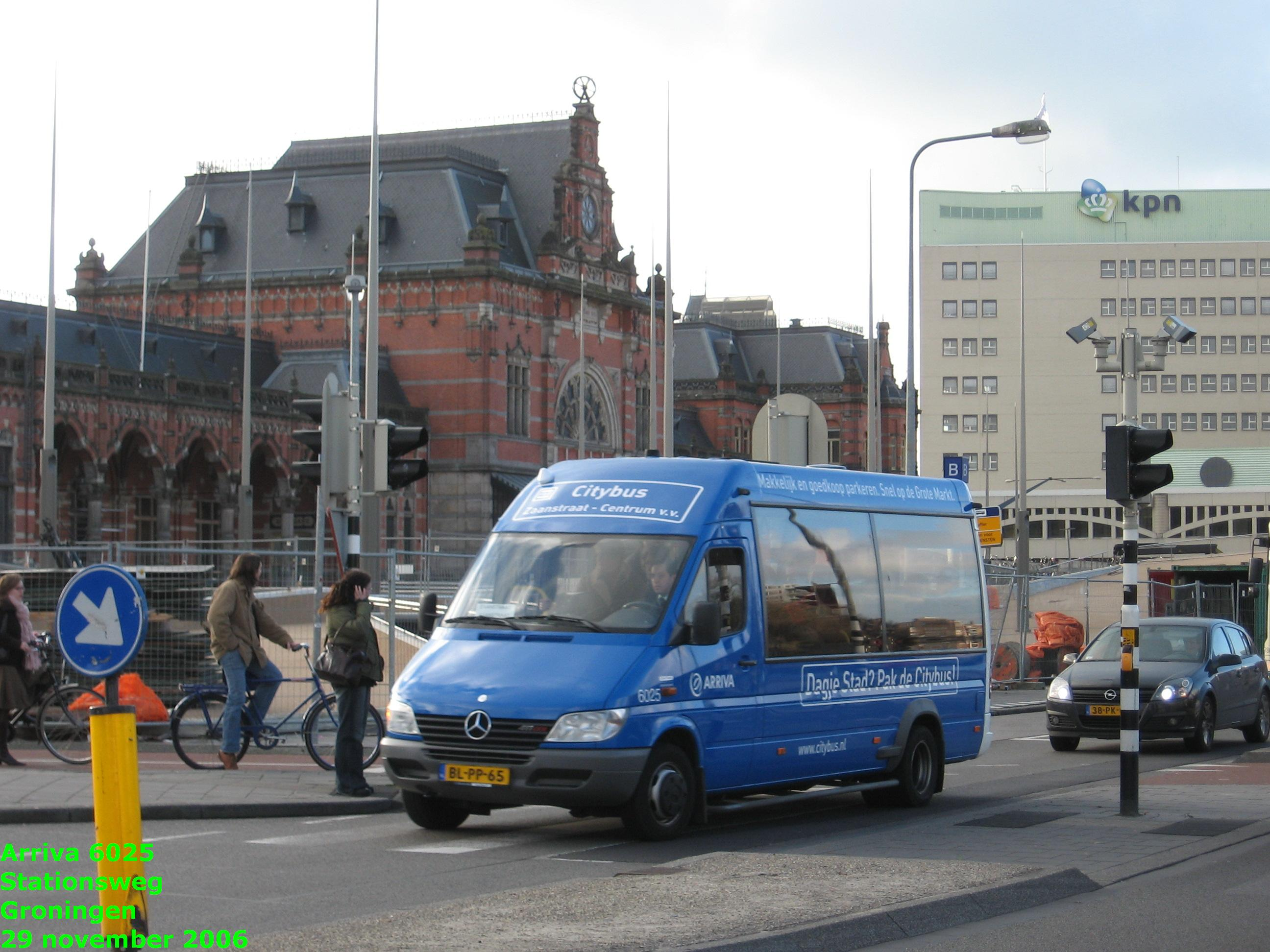 The 6025 of Arriva Groningen, a Citybus at the Stationsweg in Groningen, Netherlands.